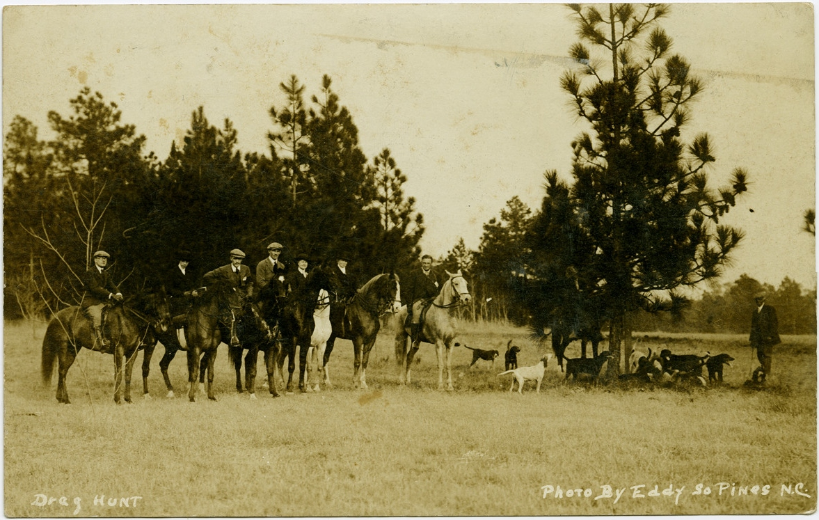 Real photo postcard showing a hunting party, including men on horses and dogs.